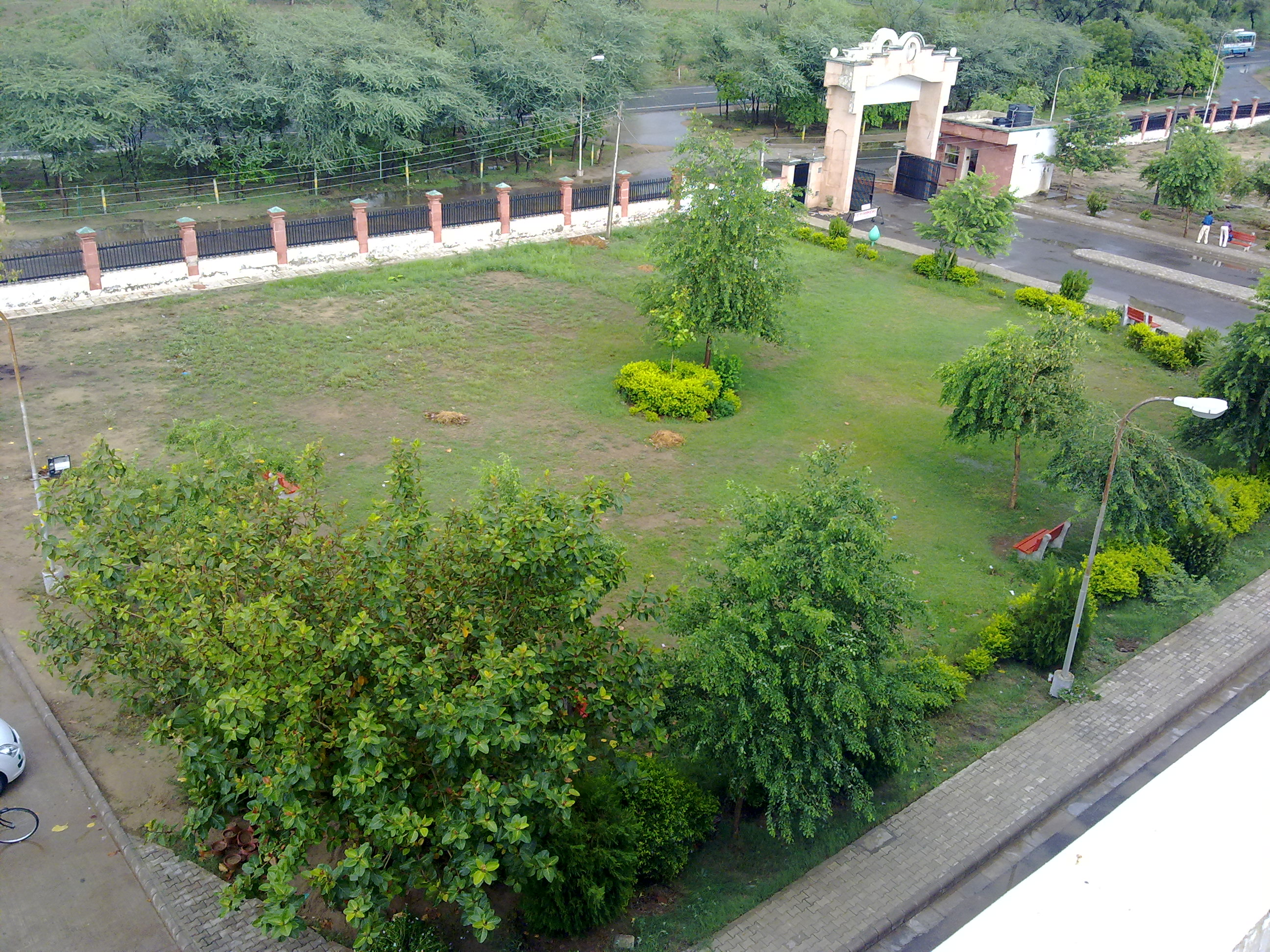 this is view of cdlmgec